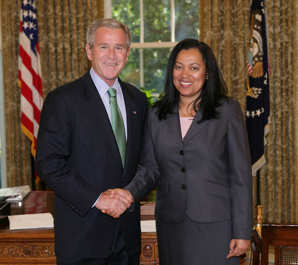 President George W. Bush meets with Ambassador Maria de Fatima Lima da Veiga of the Republic of Cape Verde, during the credentials ceremony for newly appointed ambassadors Tuesday, Sept. 18, 2007, in the Oval Office. White House photo by Eric Draper.